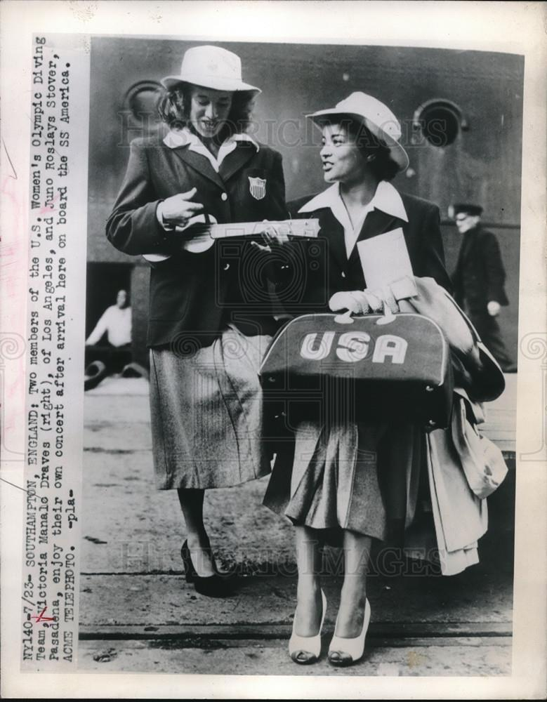 1948 Press Photo US Olympic divers Victoria M Draves, Juno R Stover in England